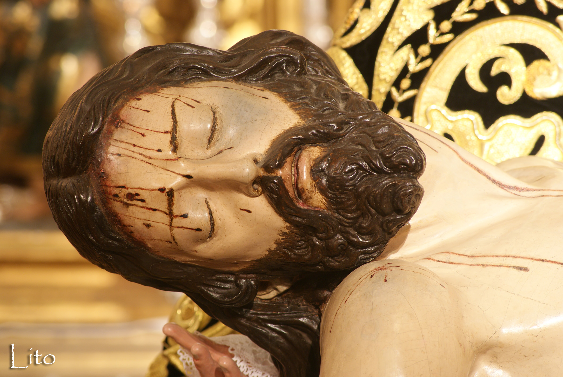 Santísimo Cristo de la Providencia